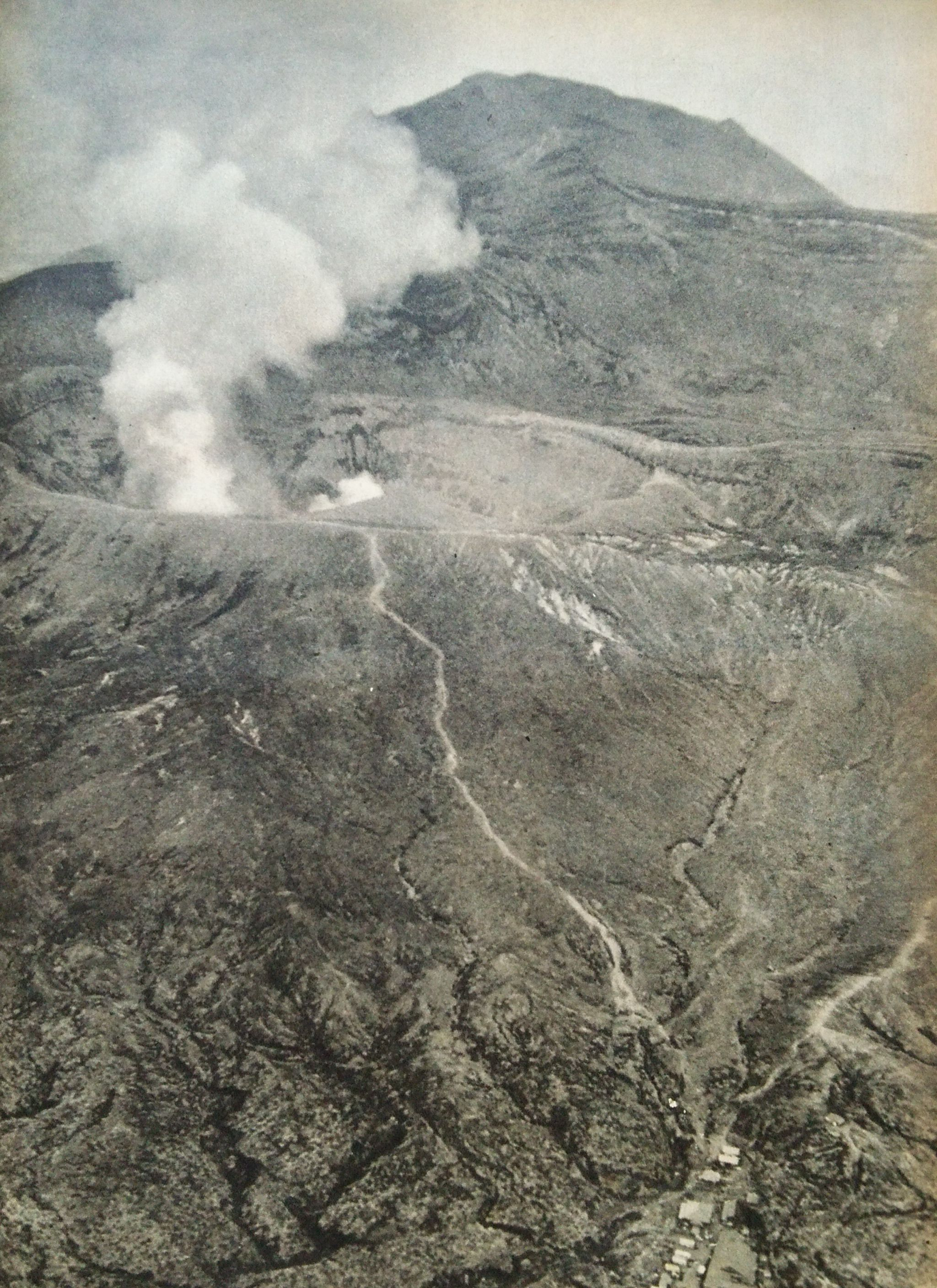 Eruption of Mount Naka in the Aso Caldera in April 1953